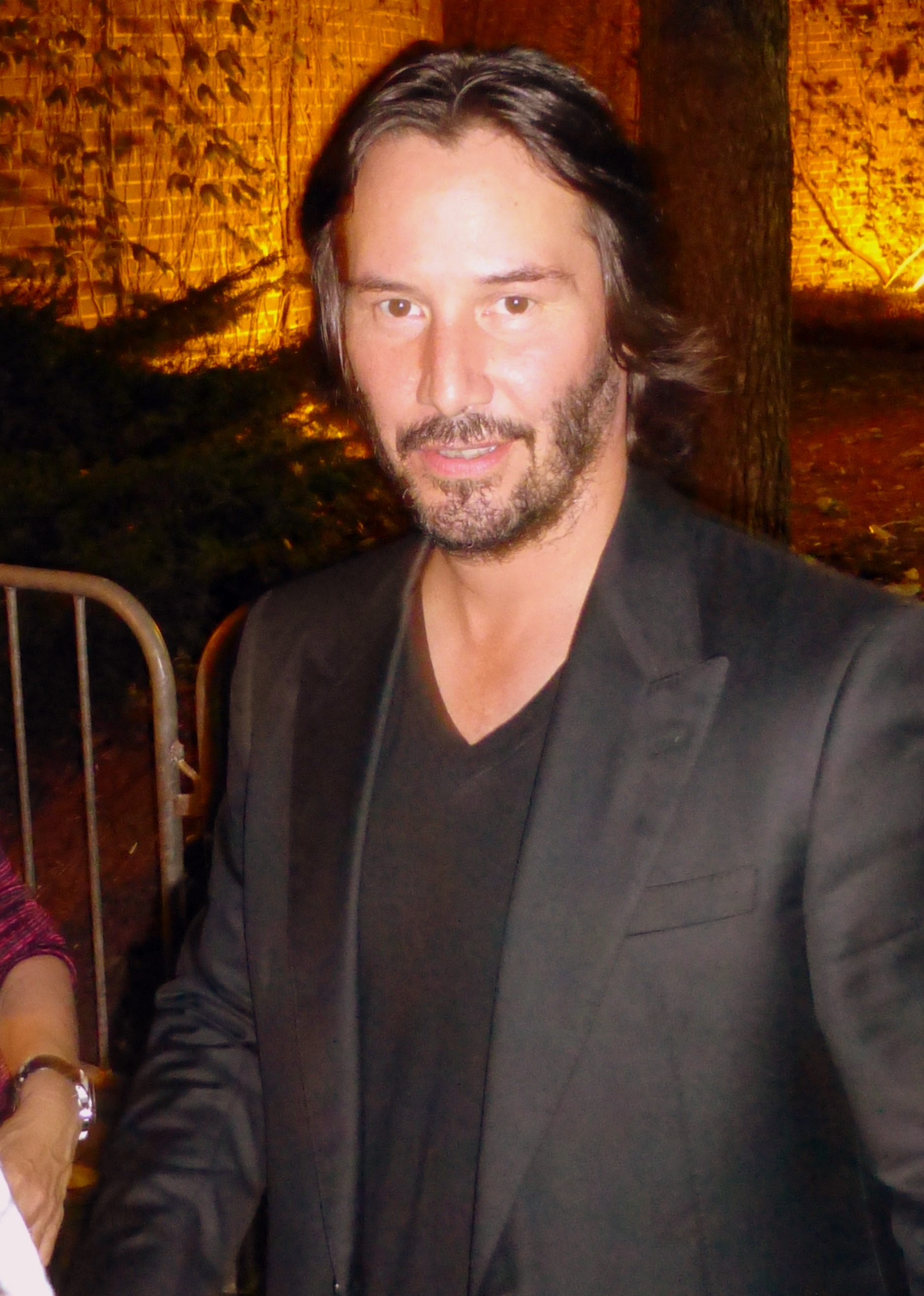 Keanu Reeves at the premiere of Man of Tai Chi, Toronto Film Festival 2013